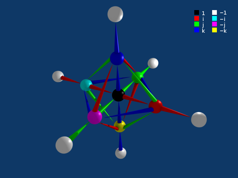 Cayley Q8 graph of quaternion multiplication. Red, green and blue arrows denote multiplication by i, j and k respectively. Multiplication by negative values are omitted for clarity.